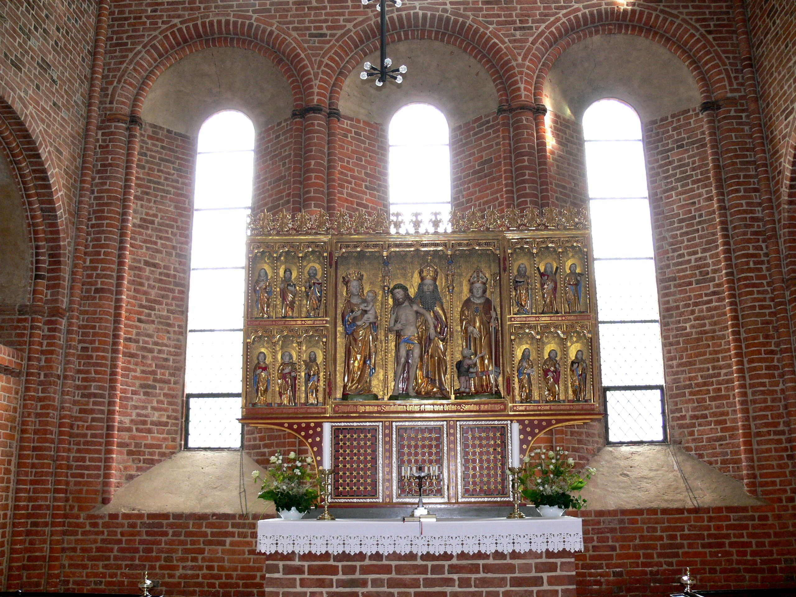 Løgumkloster church: Gothic main altar